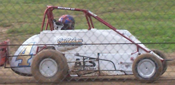 The USAC Midget of Jerry Coons Jr. at Angell Park Speedway